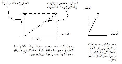 This image is modified from File:Rel6.GIF for